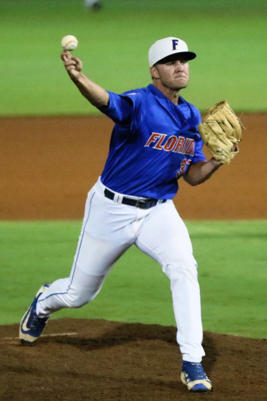 FSU Florida State Seminoles.vs Florida Gators, Gators Win 7-0&ADVANCE TO CWS., in front of 4475 at (McKethan Stadium) Gainesville FL